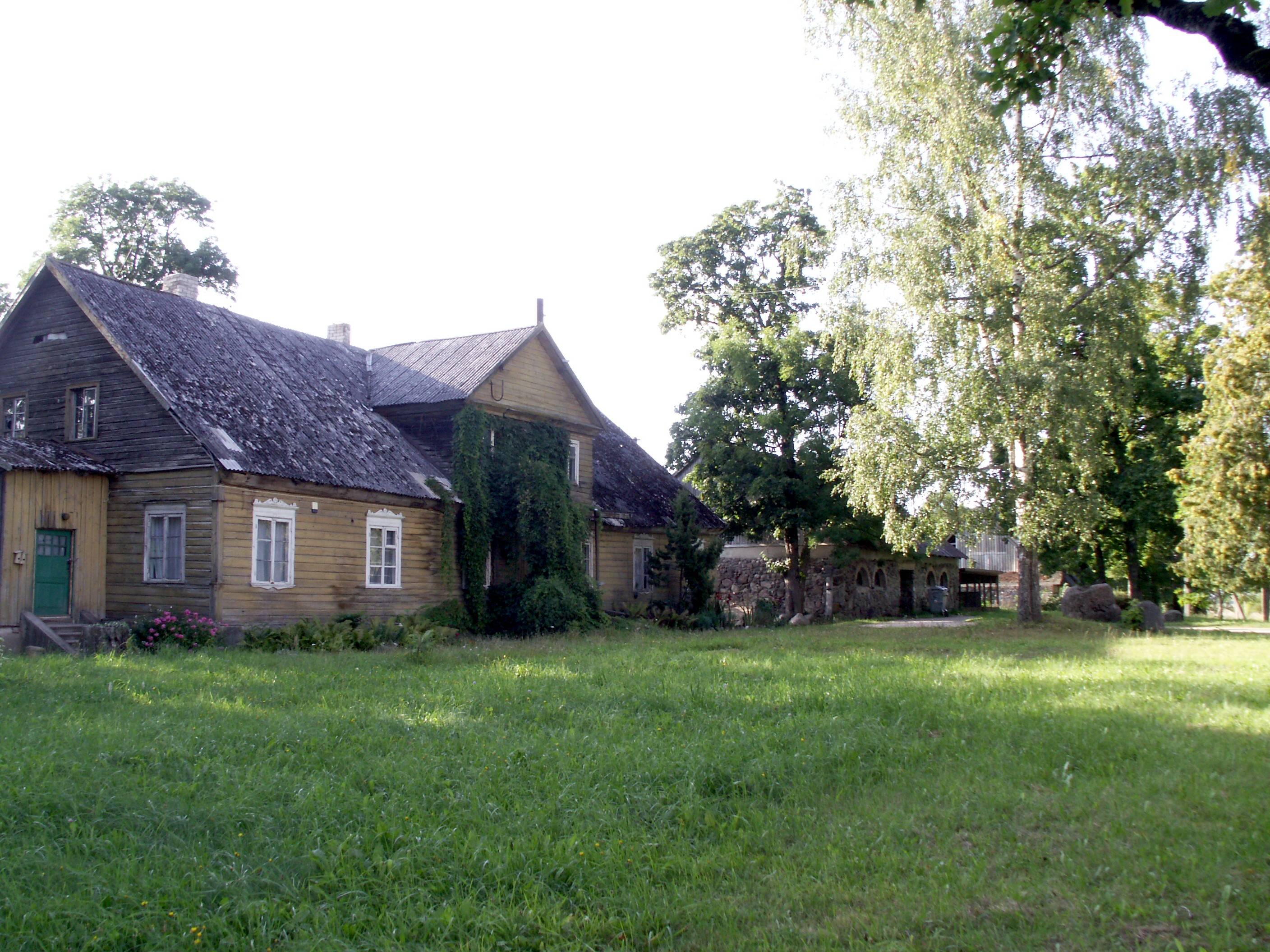 Renavas manor in Mažeikiai district, Lithuania